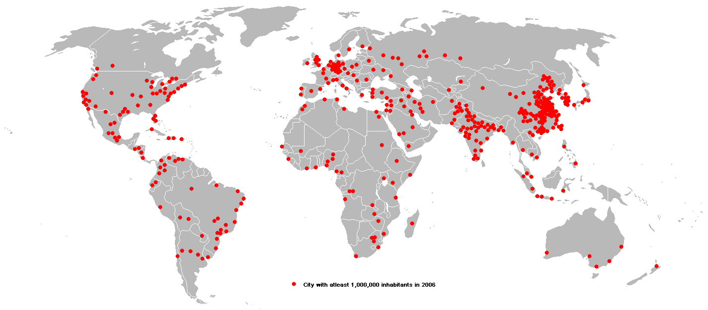 This bubble map shows the global distribution of top 400 "urban areas" with at least 1,000,000 inhabitants in 2006. This map resolves the accessibility issues faced by colour-coded maps that may not be properly rendered in old computer screens. Data was extracted on 27th June 2007 from Based on :Image:BlankMap-World.png